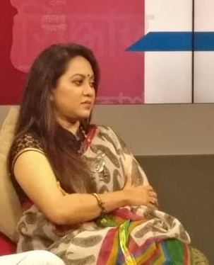 Tarin_2018